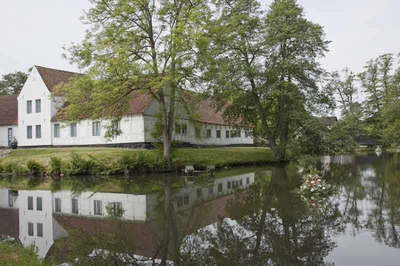 Manor, Bangsbo Hovedgård in Frederikshavn, Denmark